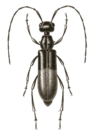 Ametrocephala monstrosa Blanchard, 1851 = Pseudocephalus monstrosus (Blanchard, 1851)